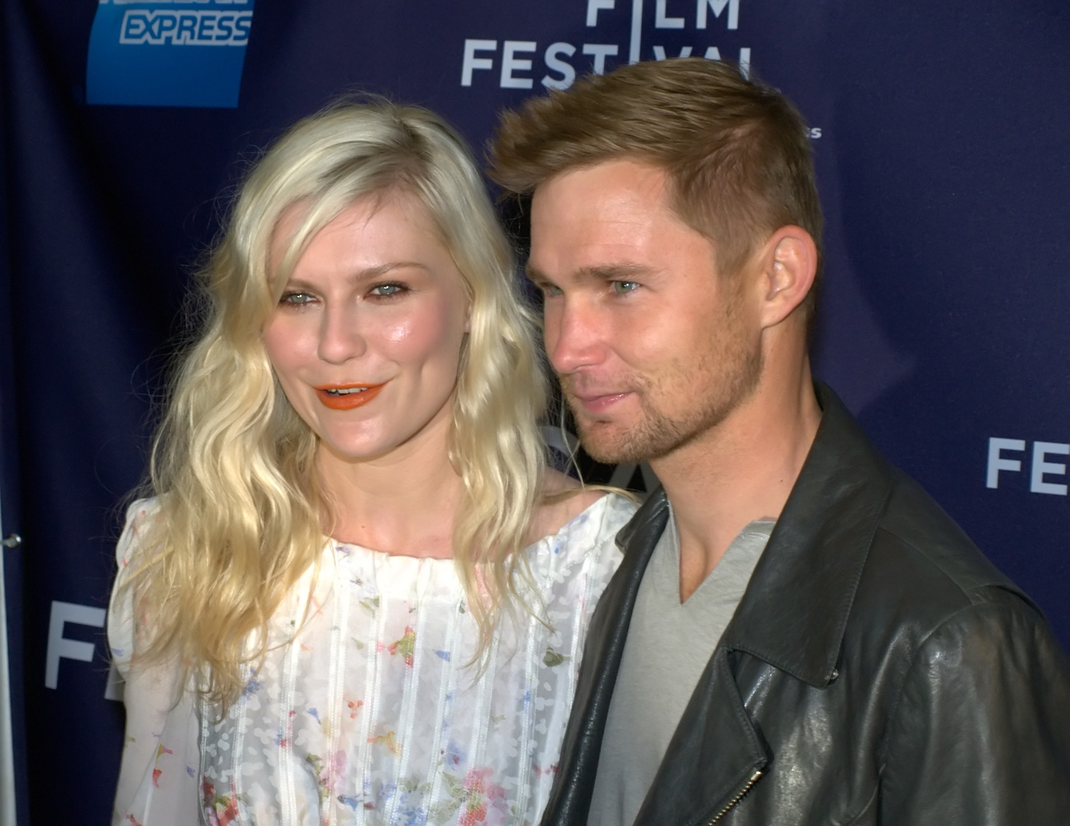 Kirsten Dunst and Brian Geraghty at Tribeca Film Festival 2010